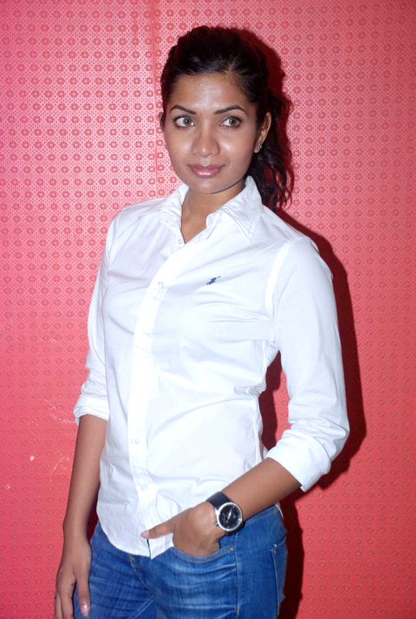 Photograph of Sri Lankan beauty pageant titleholder,Gamya Wijayadasa